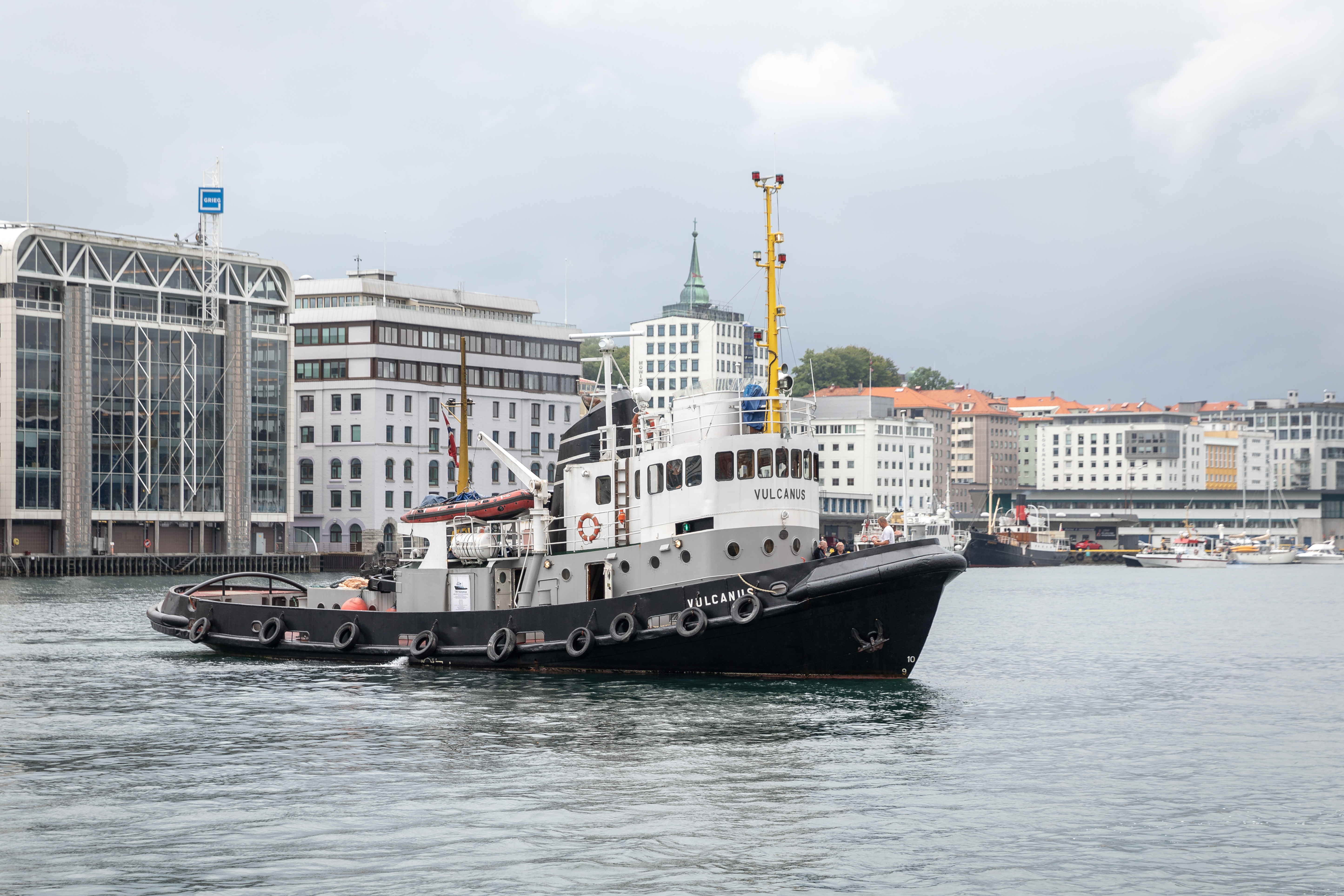 From Fjordsteam 2018. The maritime heritage festival took place between August 2 and August 5 2018 in Bergen, Norway.